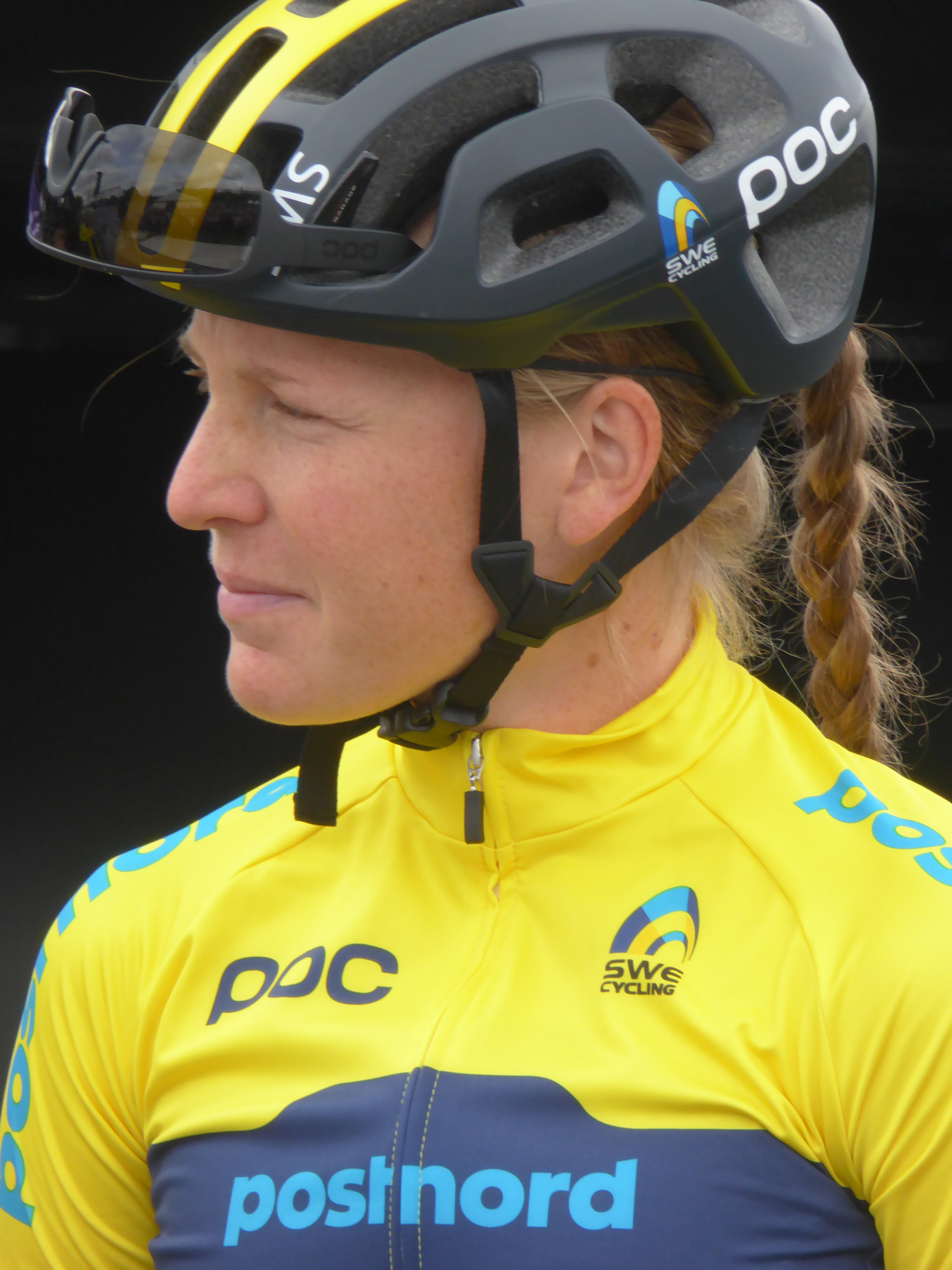 Sara Penton (Sweden), prior to the women's road race at the 2018 UEC European Road Cycling Championships in Glasgow.